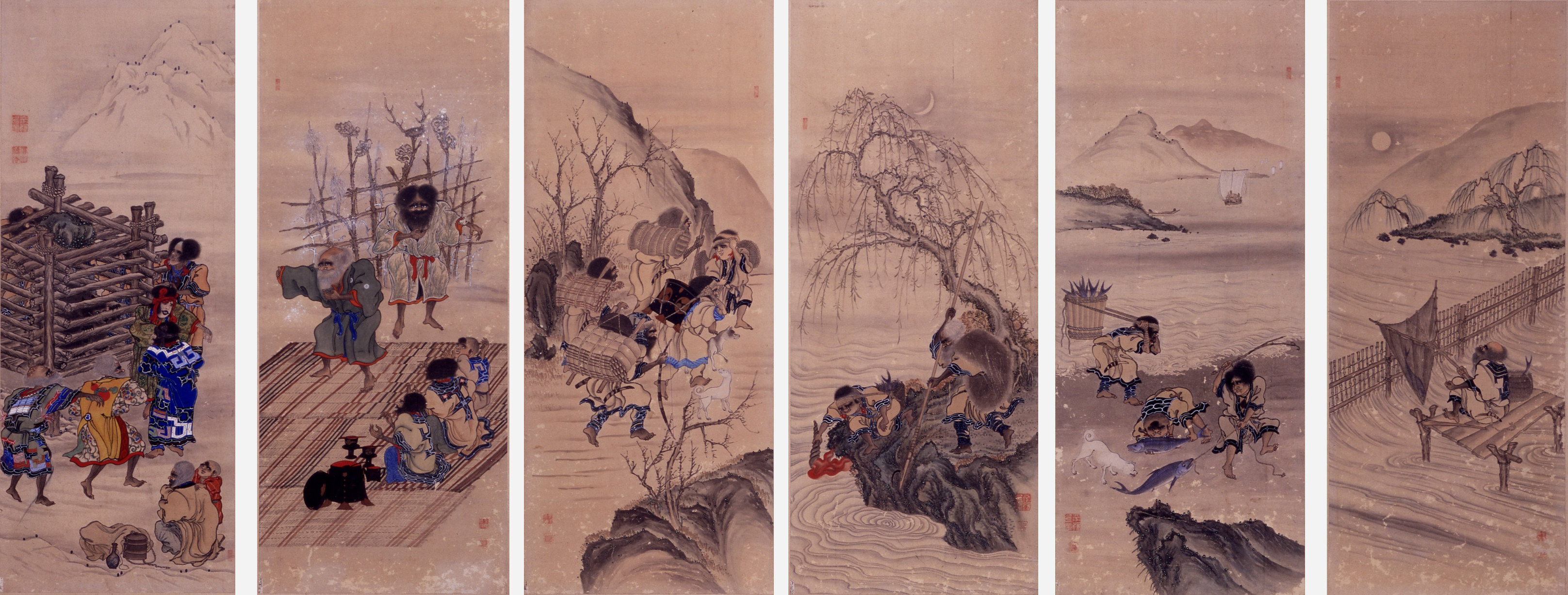 Ainu Customs of the Twelve Months, byōbu, Hakodate City Museum, Hakodate, Hokkaido, Japan